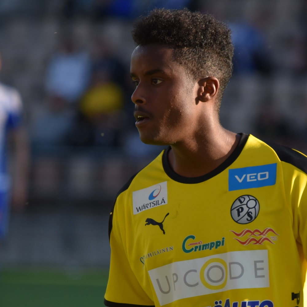 Assocation football playe Omar Jama (VPS)